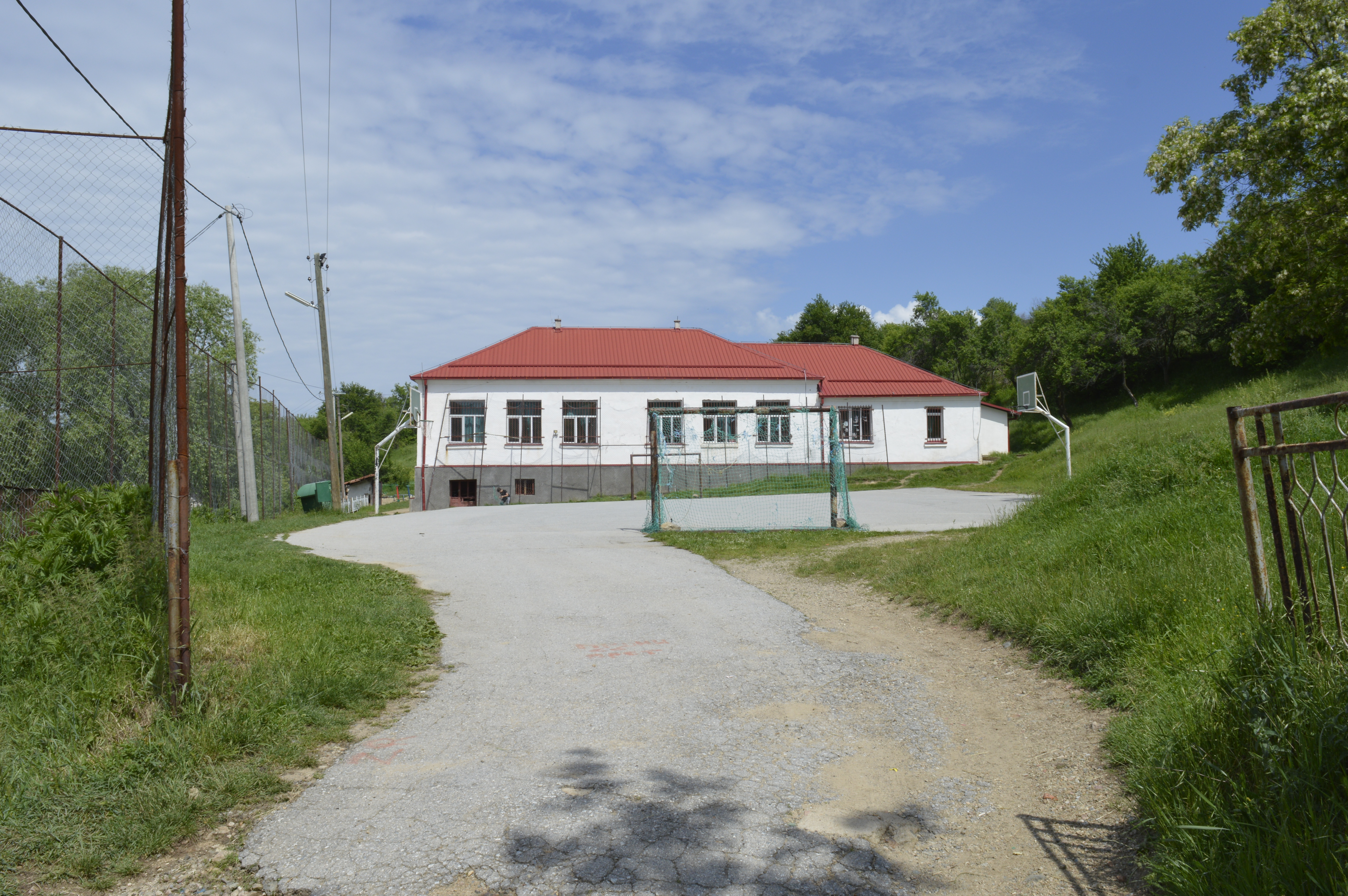 Virw of the primary school in the village Crnik